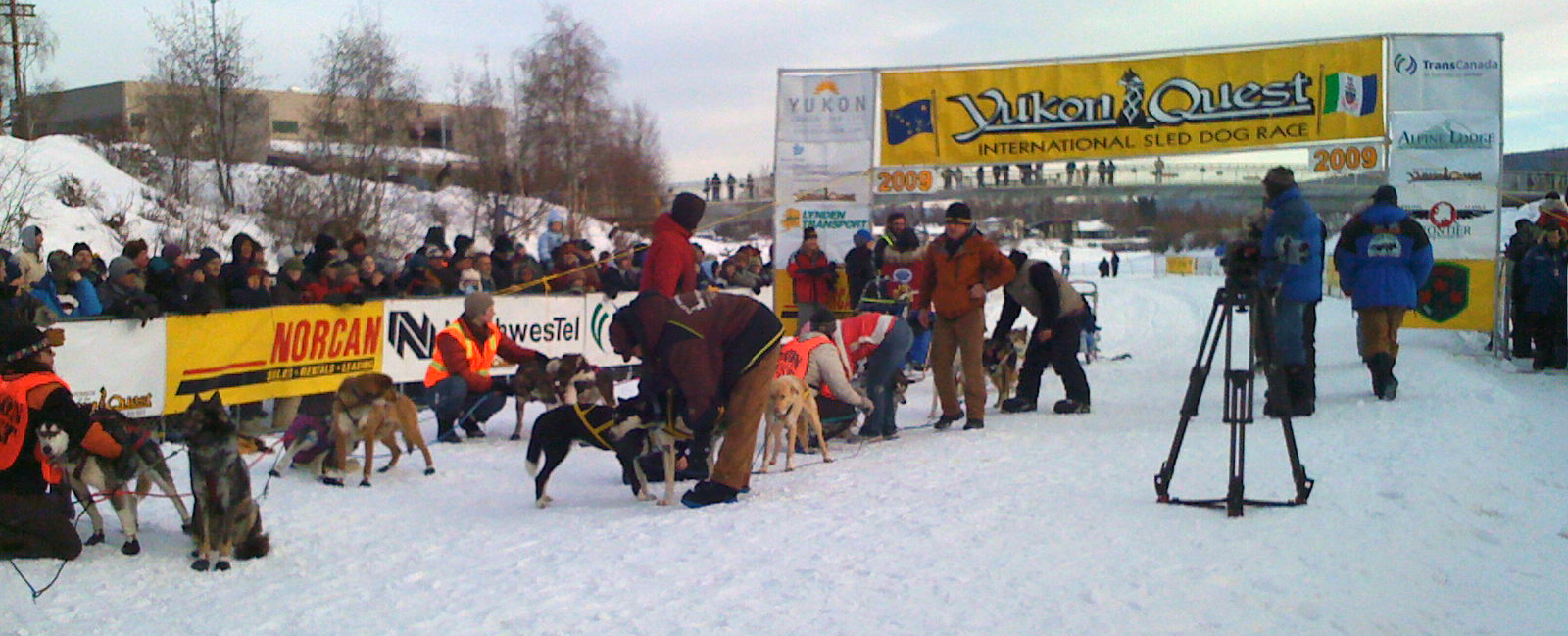 Handlers, veterinarians, and spectators examine the dog teams of Sebastian Schnuelle and Hugh Neff after the finish of the 2009 Yukon Quest.